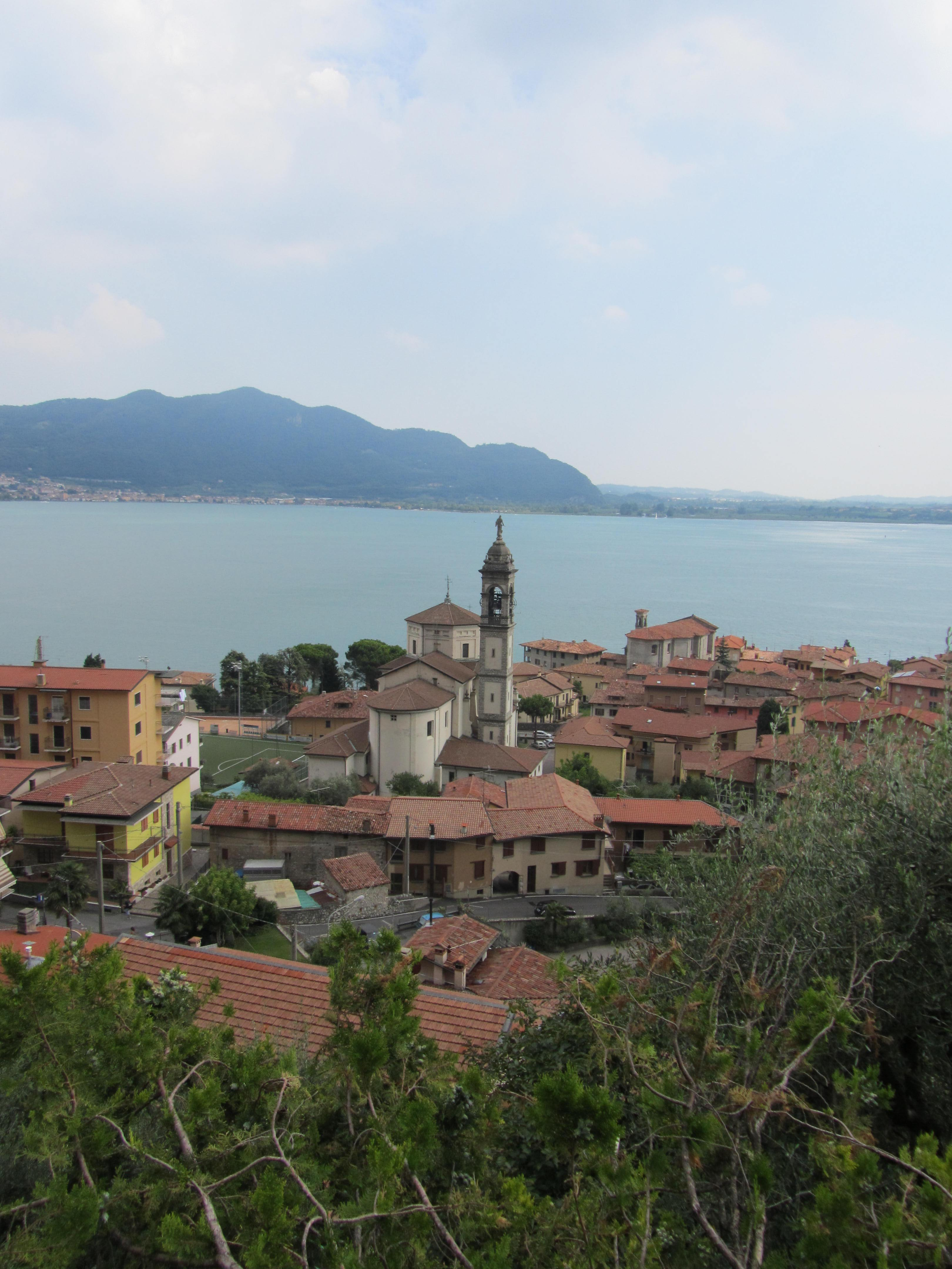 Predore, Lake Iseo